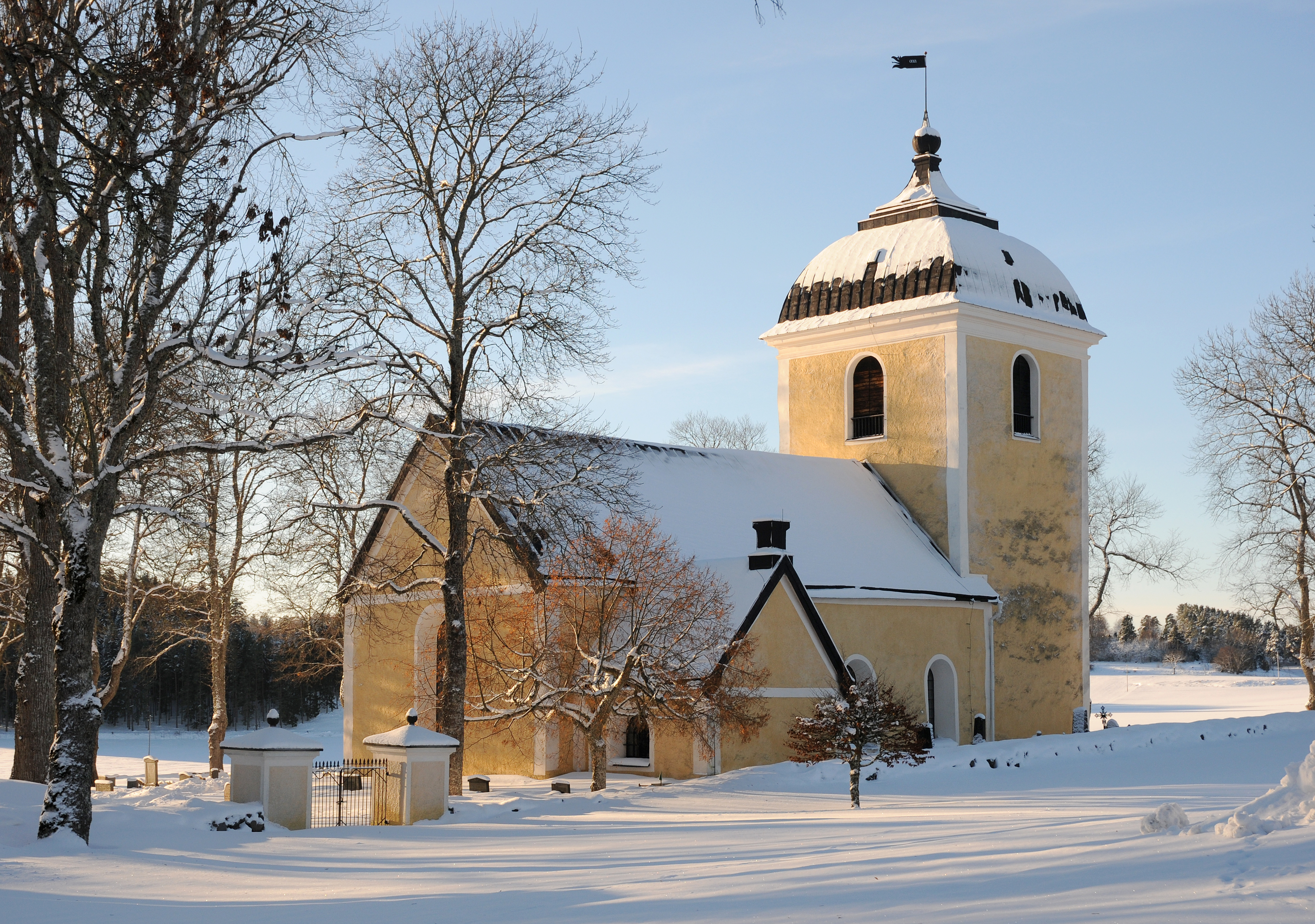 Tystberga church, Nyköping Municipality, December 2010